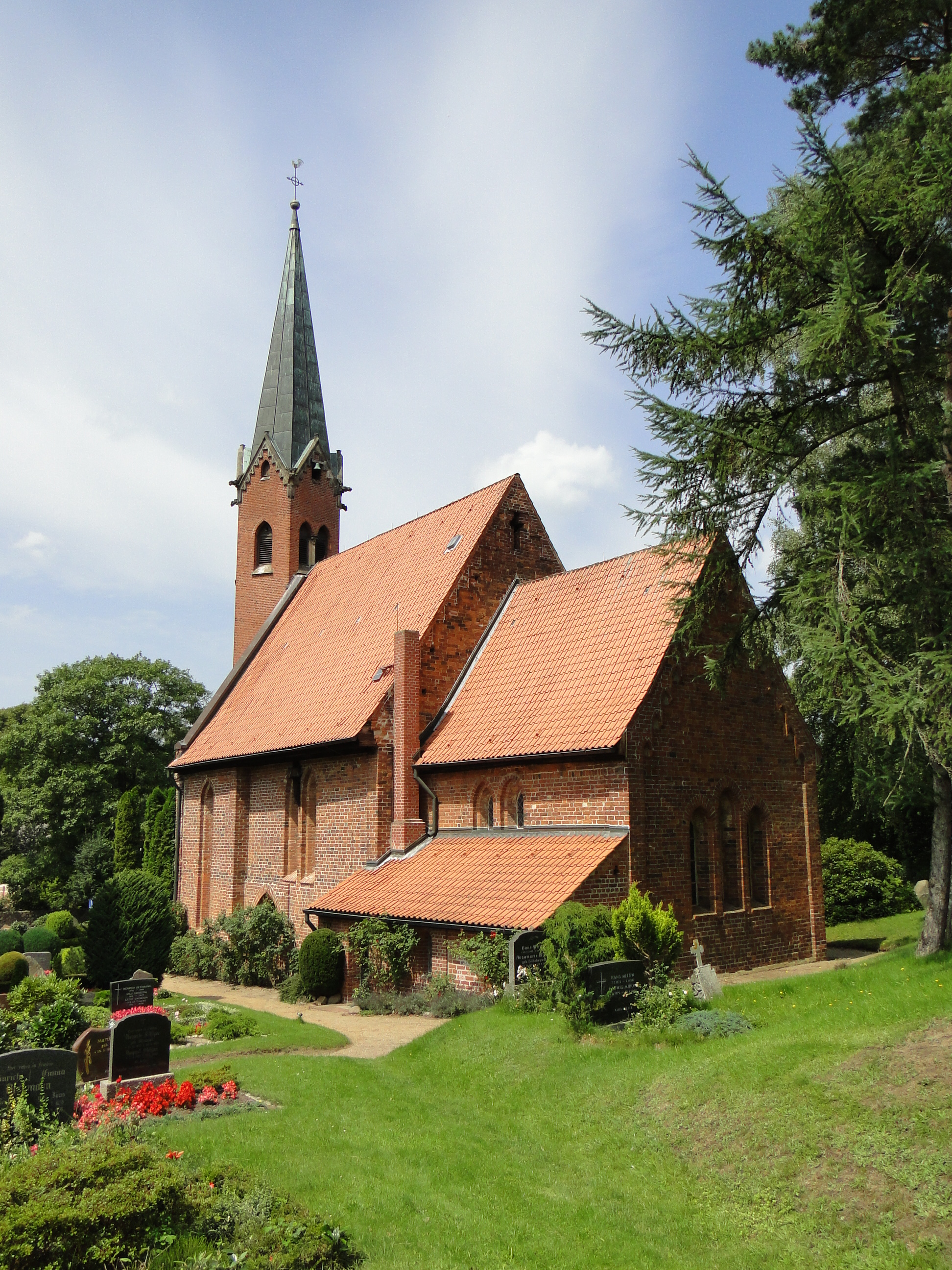 Church in/near Seedorf, disctrict Herzogtum Lauenburg, Schleswig-Holstein, Germany